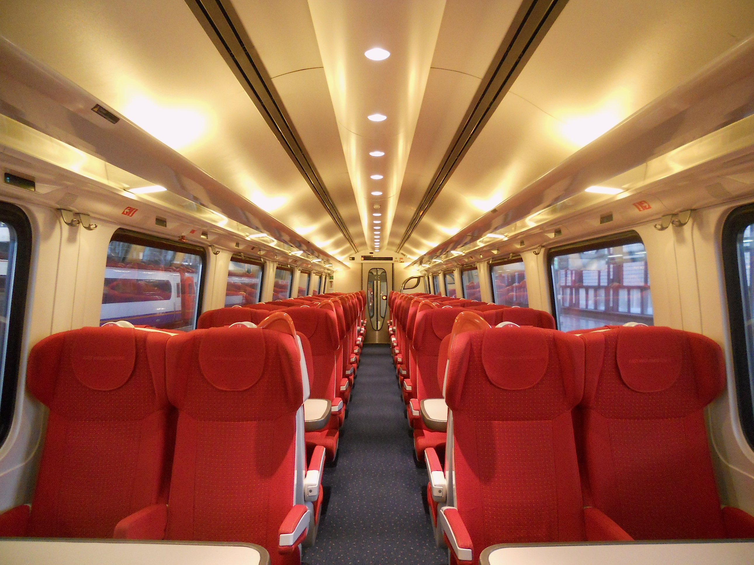 The interior of Standard Class aboard an East Midlands Trains refurbished Class 222